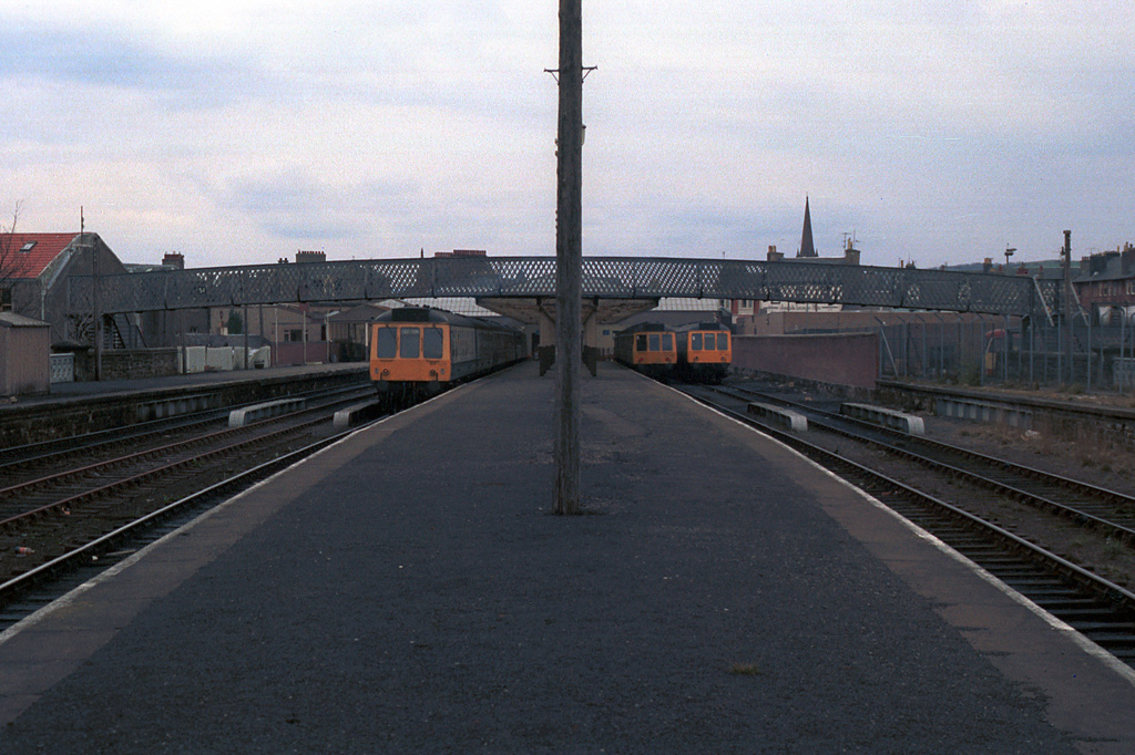 General view for Largs railway station in Largs, North Ayrshire, Scotland. Photo by Pencefn, taken April 1984.